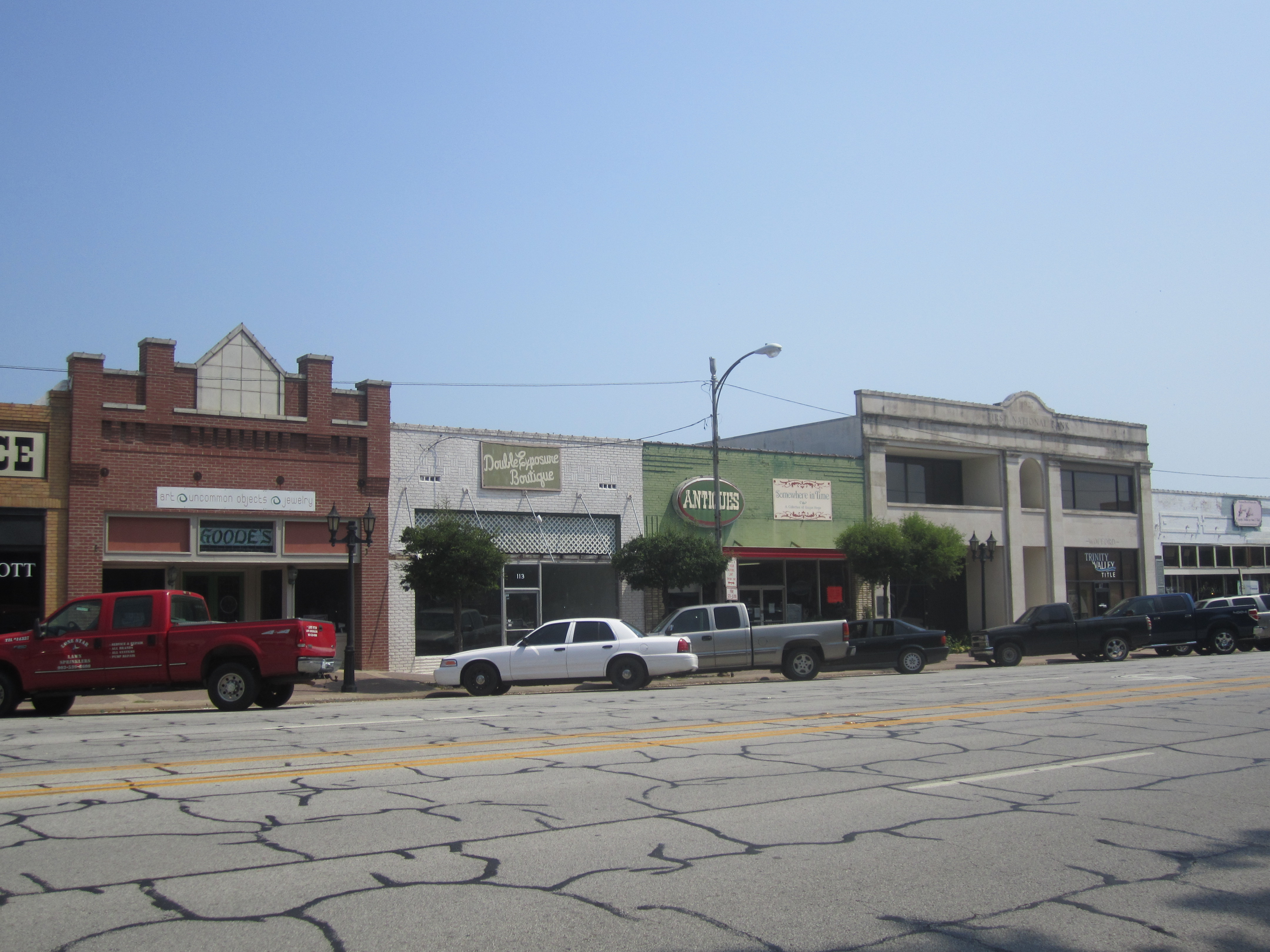 I took photo with Canon camera in Athens, TX.